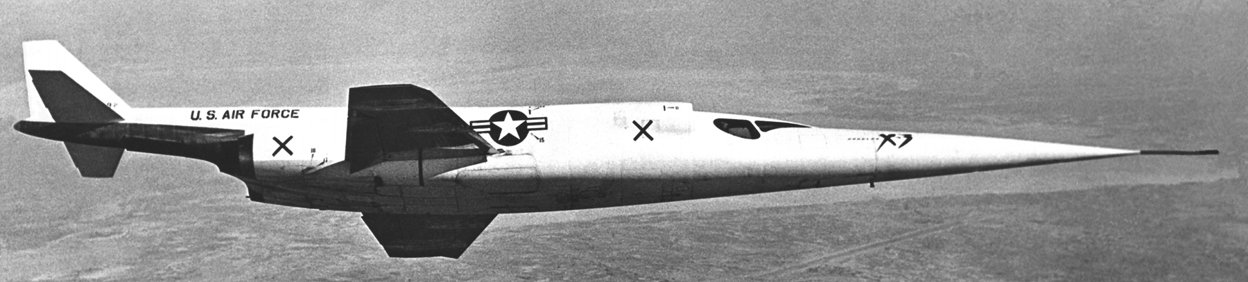 This early 1950's in-flight NACA High-Speed Flight Station photograph of the X-3 Stiletto illustrates the aircraft’s long slender fuselage and the small wings. The X-3 Stiletto was a single-place jet-powered research aircraft manufactured by the Douglas Aircraft Company. The X-3's primary mission was to investigate the design features of an aircraft suitable for sustained supersonic speeds, which included the first use of titanium in major airframe components. It was delivered to the NACA High-Speed Flight Station in August of 1954 after some Douglas and United States Air Force evaluation testing.